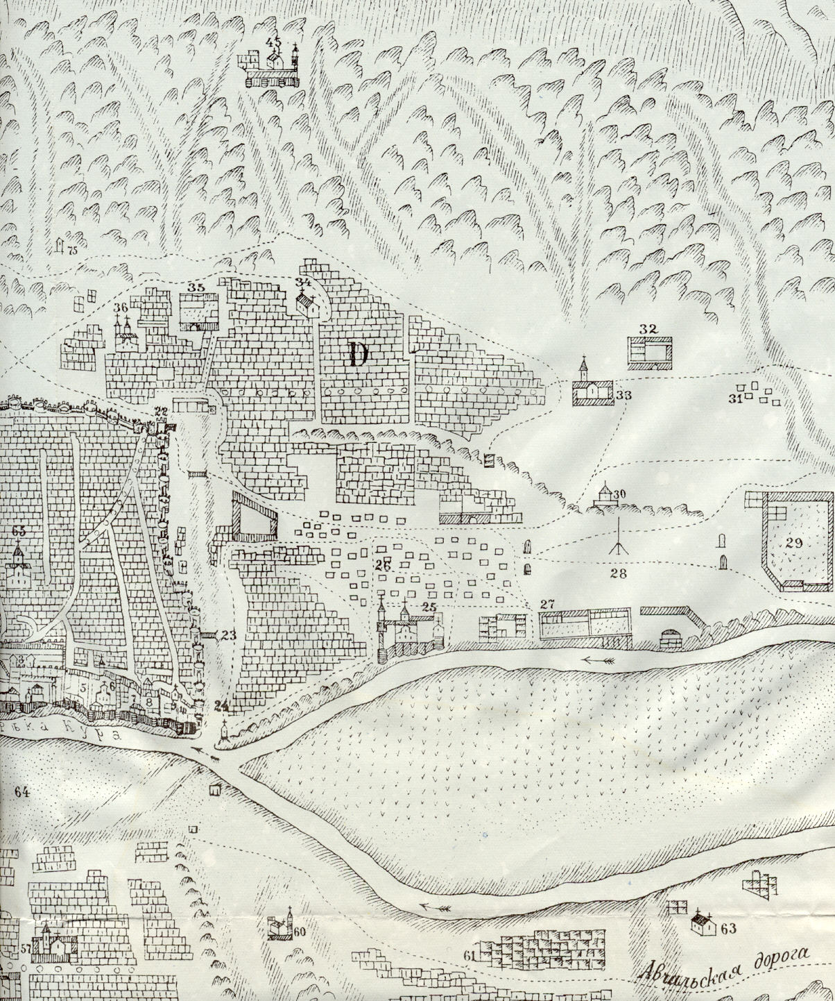 The right secion of the plan of Tbilisi inserted in the atlas of Georgia by Prince Vakhushti, 1735. Chromolithography by K. Thomson (Tiflis)